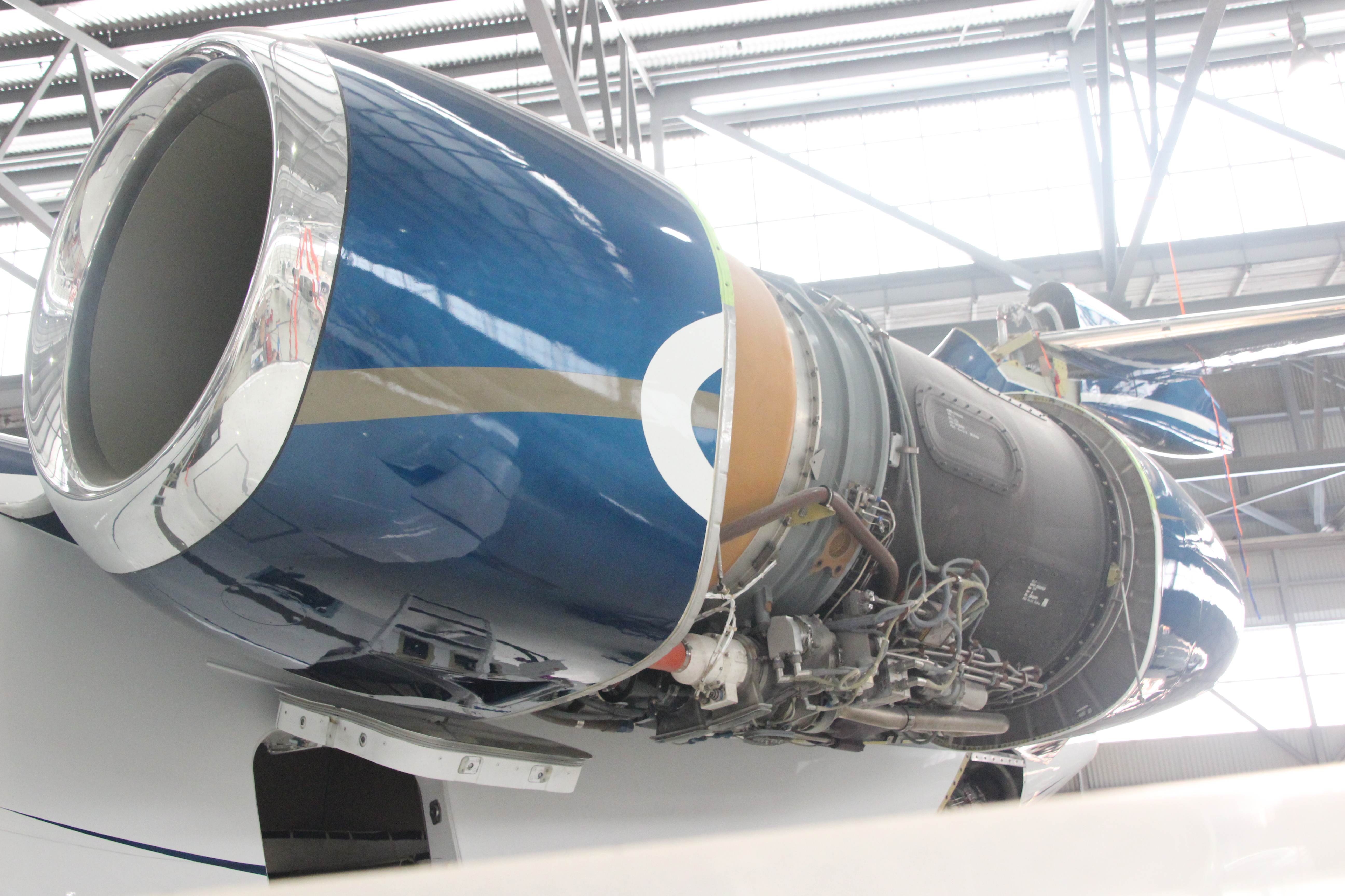 A Rolls-Royce AE 3007 engine, installed at the No.1 position (left side) of a Cessna Model 750 Citation X. Digital image taken by YSSYguy on 4 November 2014, for use in the Rolls-Royce AE 3007 article. YSSYguy (talk) 05:02, 4 February 2015 (UTC)